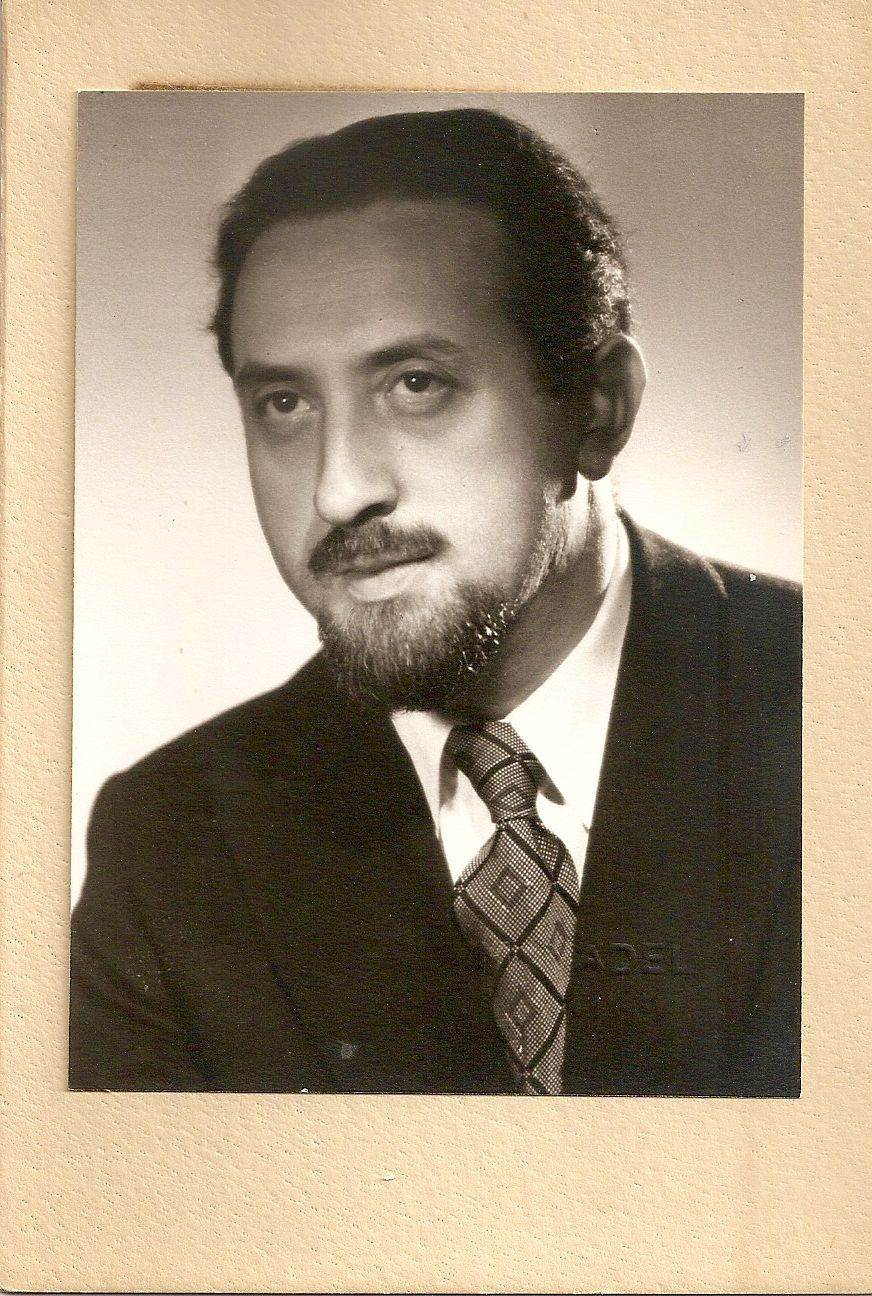 Eliezer Berkovits, Jewish philosopher, in Sidney, 1950.